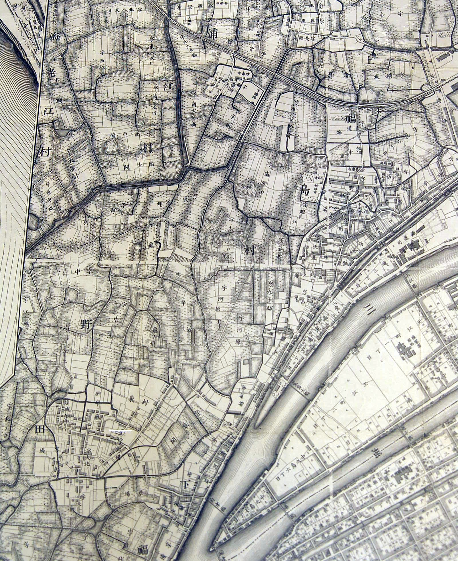 Map of Fukushima-ku Osaka City, around 1887. published by Interior Ministry of Japan